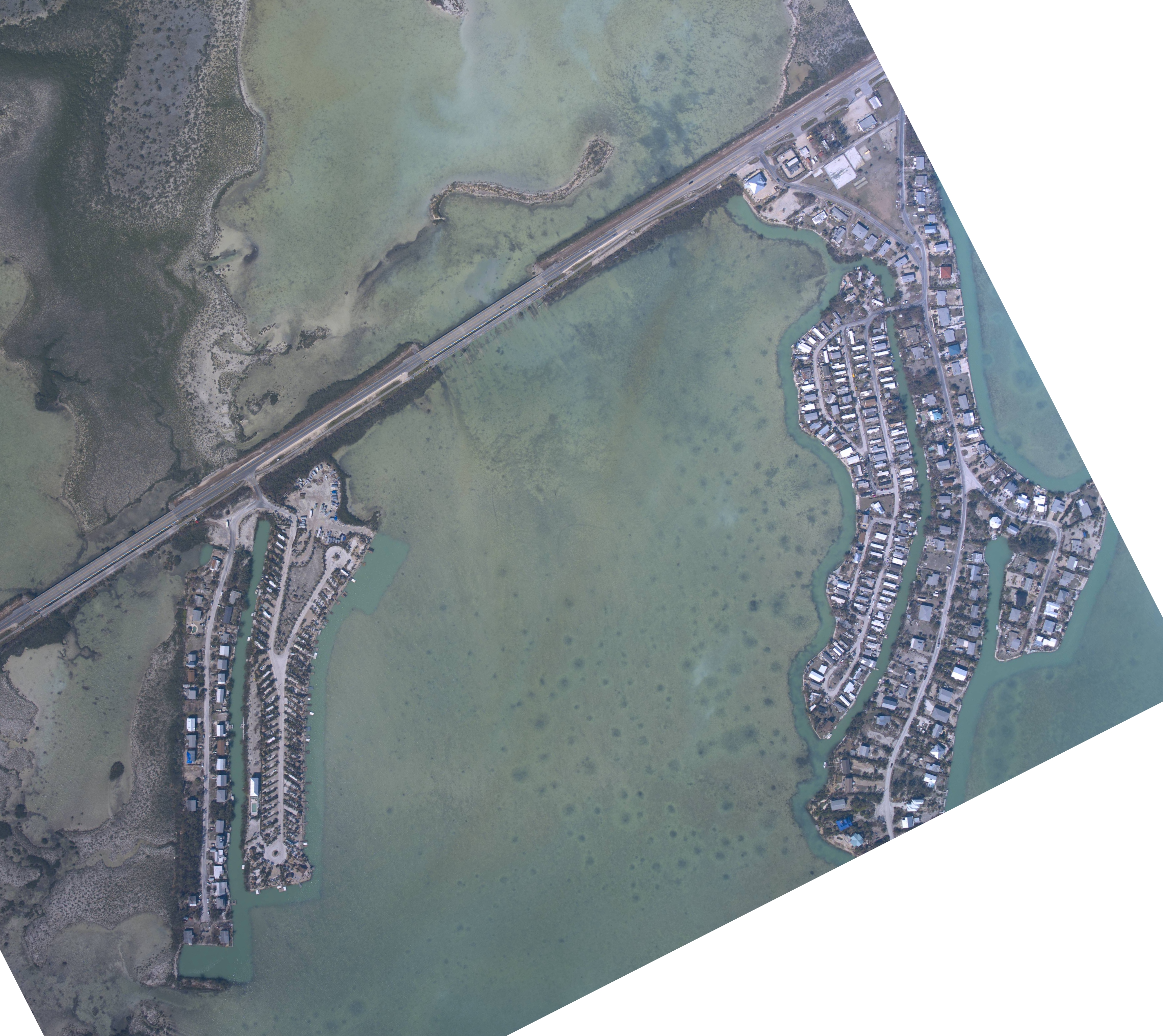 detailed aerial photograph of Saddlebunch Keys in the Florida Keys, rotated 27° right for north orientation